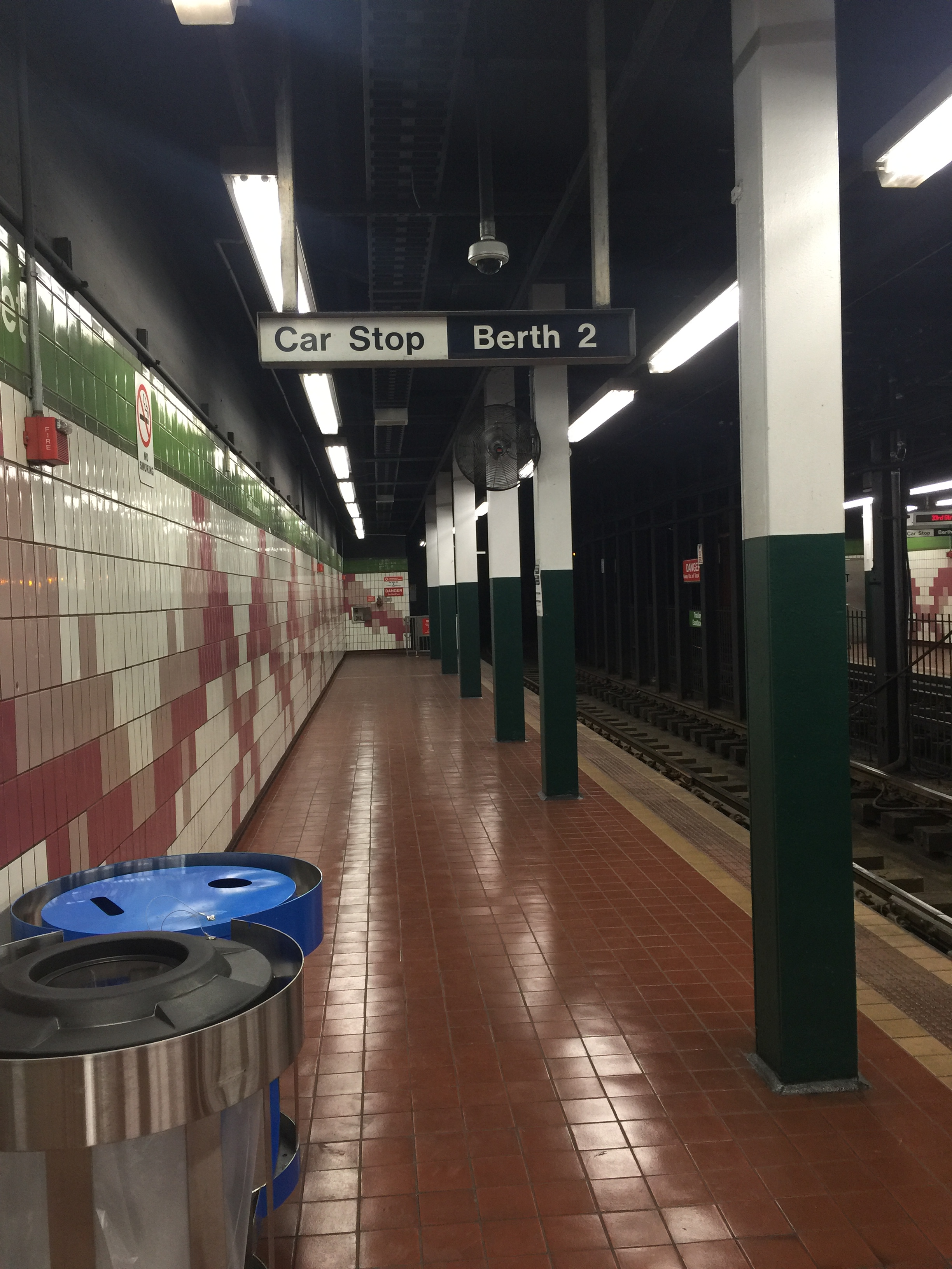 36th Street Station